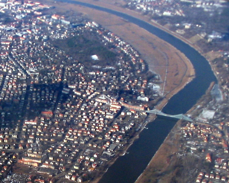 Aerial view of Dresden: Blue Wonder, Loschwitz harbour and Blasewitz forrest park